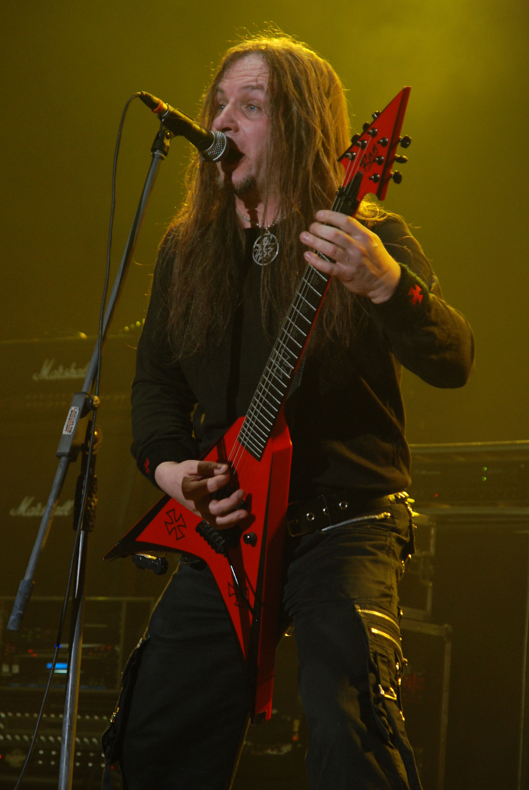 Piotr" Peter" Wiwczarek from Vader during Metalmania 2008 festival